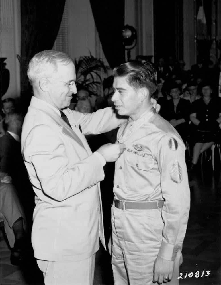 President Harry Truman awards the Congressional Medal of Honor to Macario Garcia in 1945.